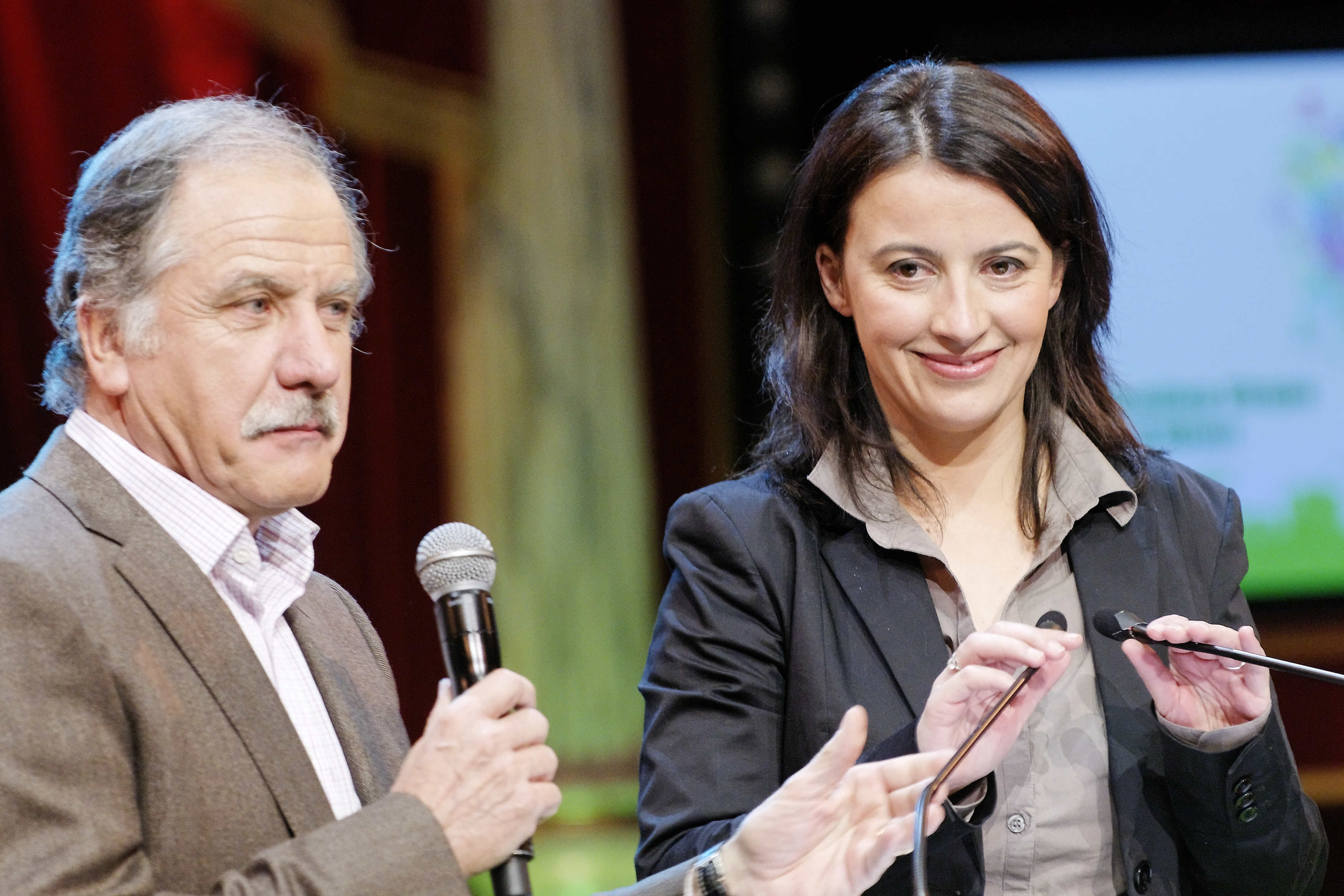 Noël Mamère (left) and Cécile Duflot (right) at Europe Écologie's closing rally of the 2010 French regional elections campaign at the Cirque d'hiver, Paris.